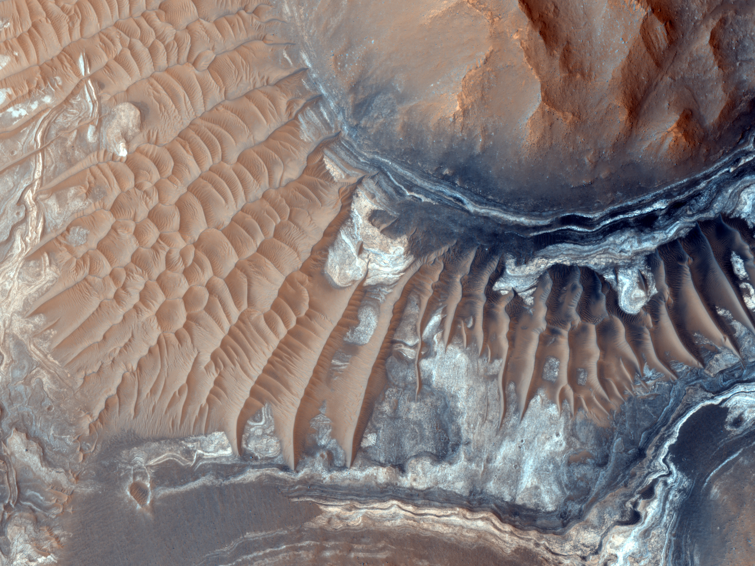 CRISM observations of this region of the Noctis Labyrinthus formation have shown indications of iron-bearing sulfates and phyllosilicate (clay) minerals. (CRISM is another instrument on the Mars Reconnaissance Orbiter.) HiRISE observations have revealed exposed layers which are possibly the sources of the signatures seen by CRISM. The layering, is visible in the lower part of the image. To the upper left one can see a dune field which covers other beds. Written by: Nicolas Thomas (7 October 2009)